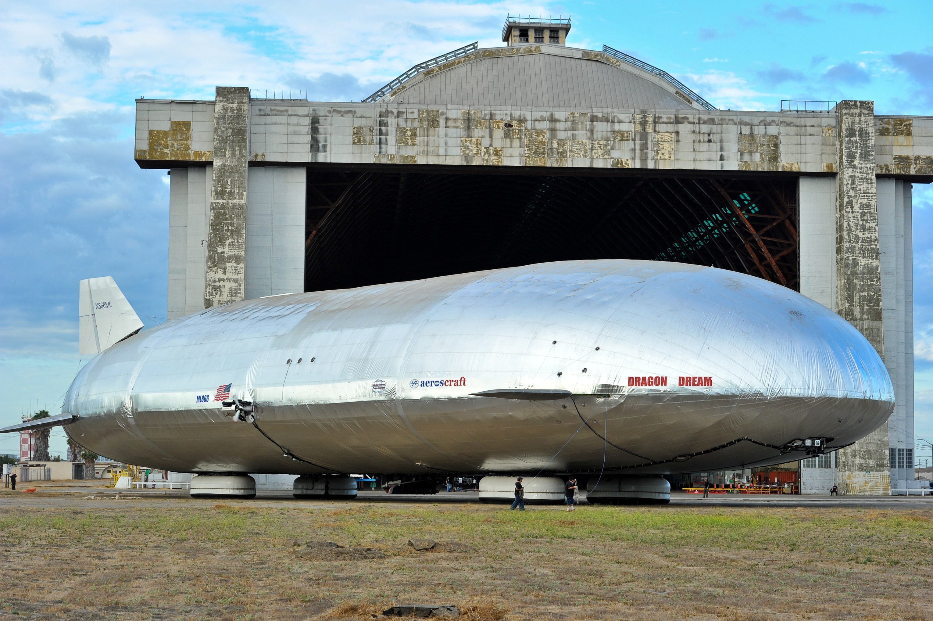 Dragon Dream ML866 and Tustin Hangar